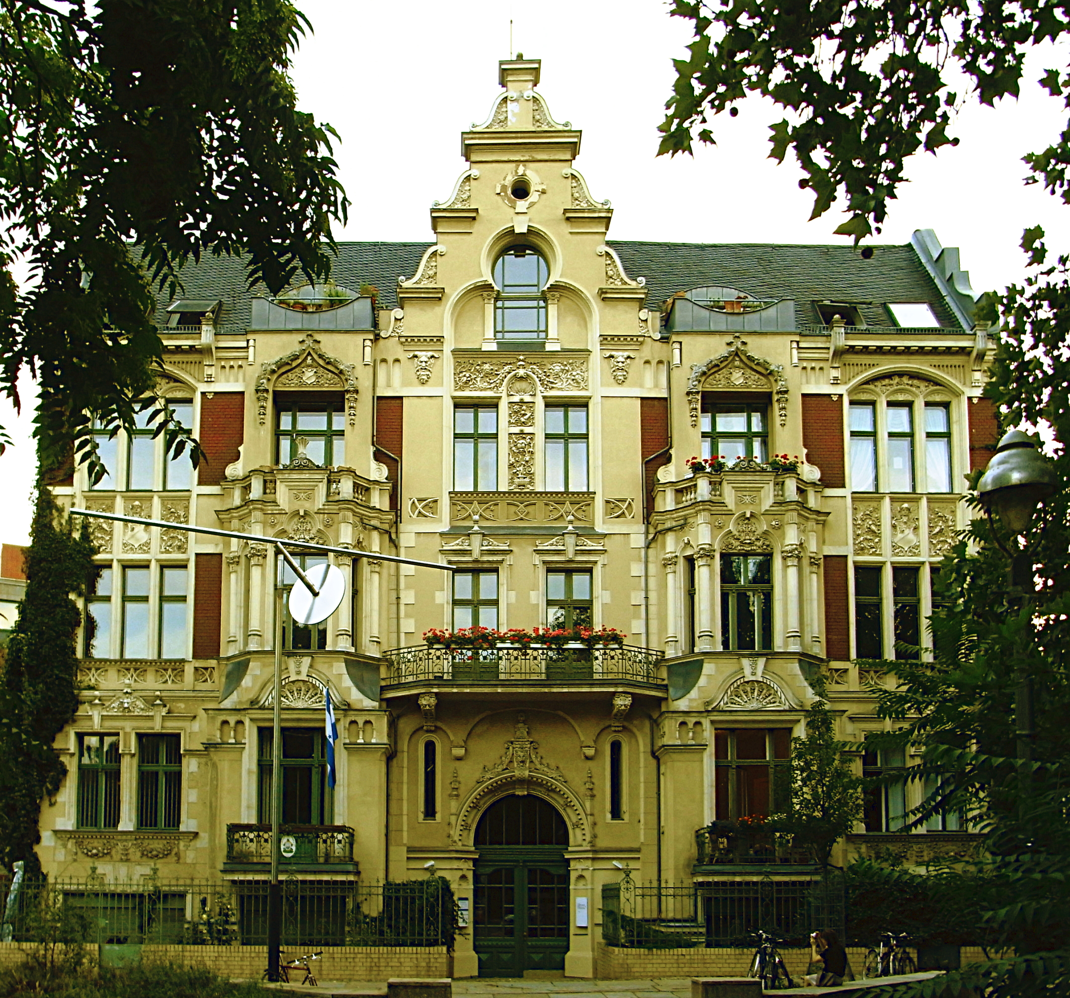 Building in Berlin-Hansaviertel, in the style of historicism. 10555 Berlin, Cuxhavener Straße 14. One of the ca. 40 buildings of the locality (out of 343) which were not destroyed by bombings during the Second World War. 1942 this was probabely a "jews house", where jews, who were expelled from their apartments, were forced to live.[1] Today beyond others the residence of the embassy of the Republic of Honduras. In front of the building is placed the wind-kinetic sculpture ""Bar and disc", designed by Rolf Lieberknecht, erected in 1989, 10 m high, stainless steel.